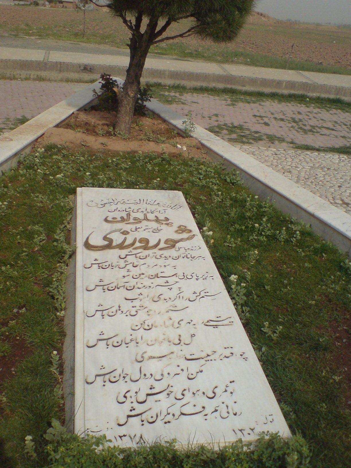 Tombstone of Pahlavan Shurvarzi-Nishapur